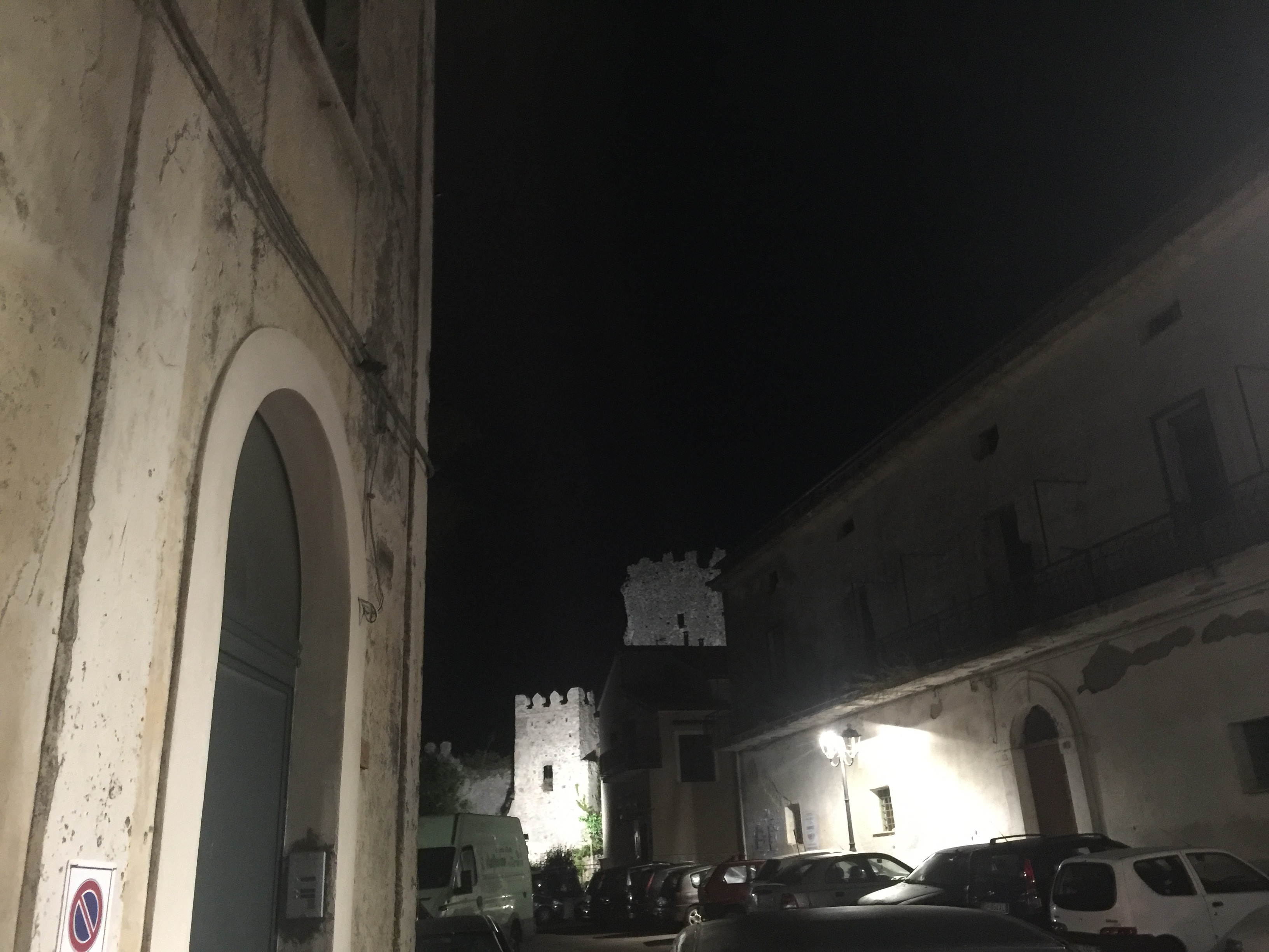 The castle of Camertota and Vittorio Emanuele 3^ squere